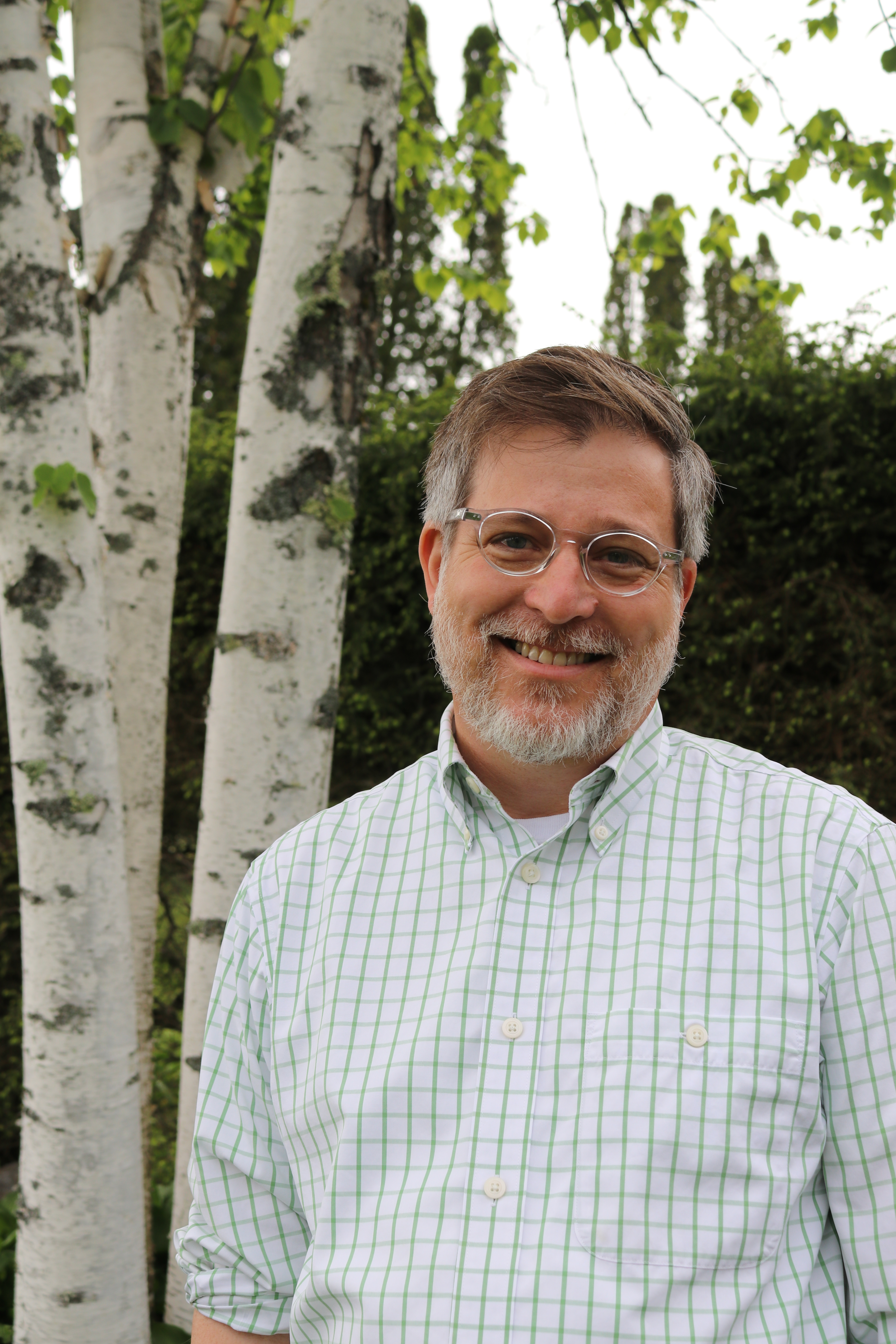 President Matthew Derr smiling and standing outside his home in Craftsbury Common, VT in front of a white paper birch tree and a green hemlock hedge